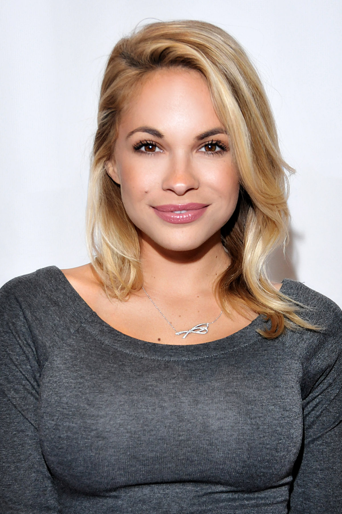 Dani Mathers, Beverly Hills, California on May 6, 2016 - Photo by Glenn Francis of